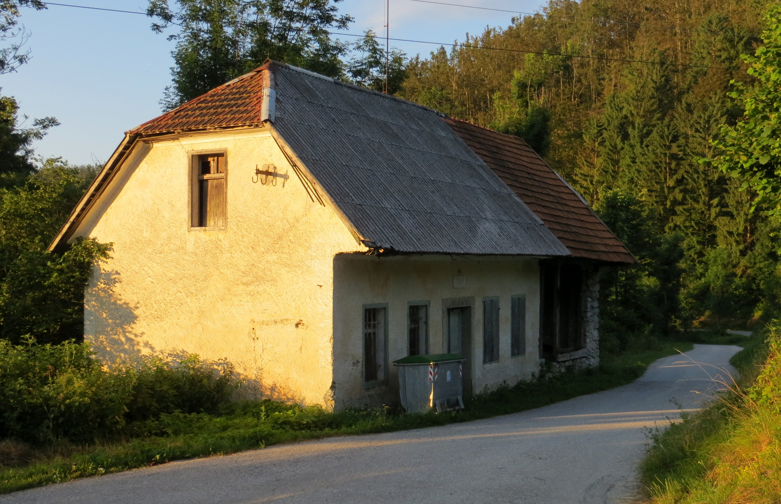 The former village school building in Bukovski Vrh, Municipalty of Tolmin, Slovenia